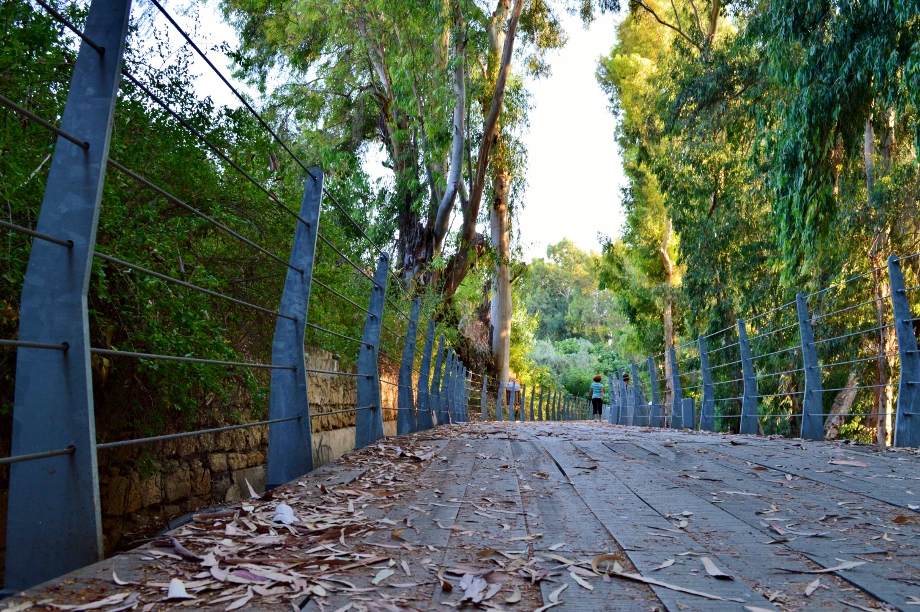 Pedieos river walking routes Green leaf Nicosia Republic of Cyprus